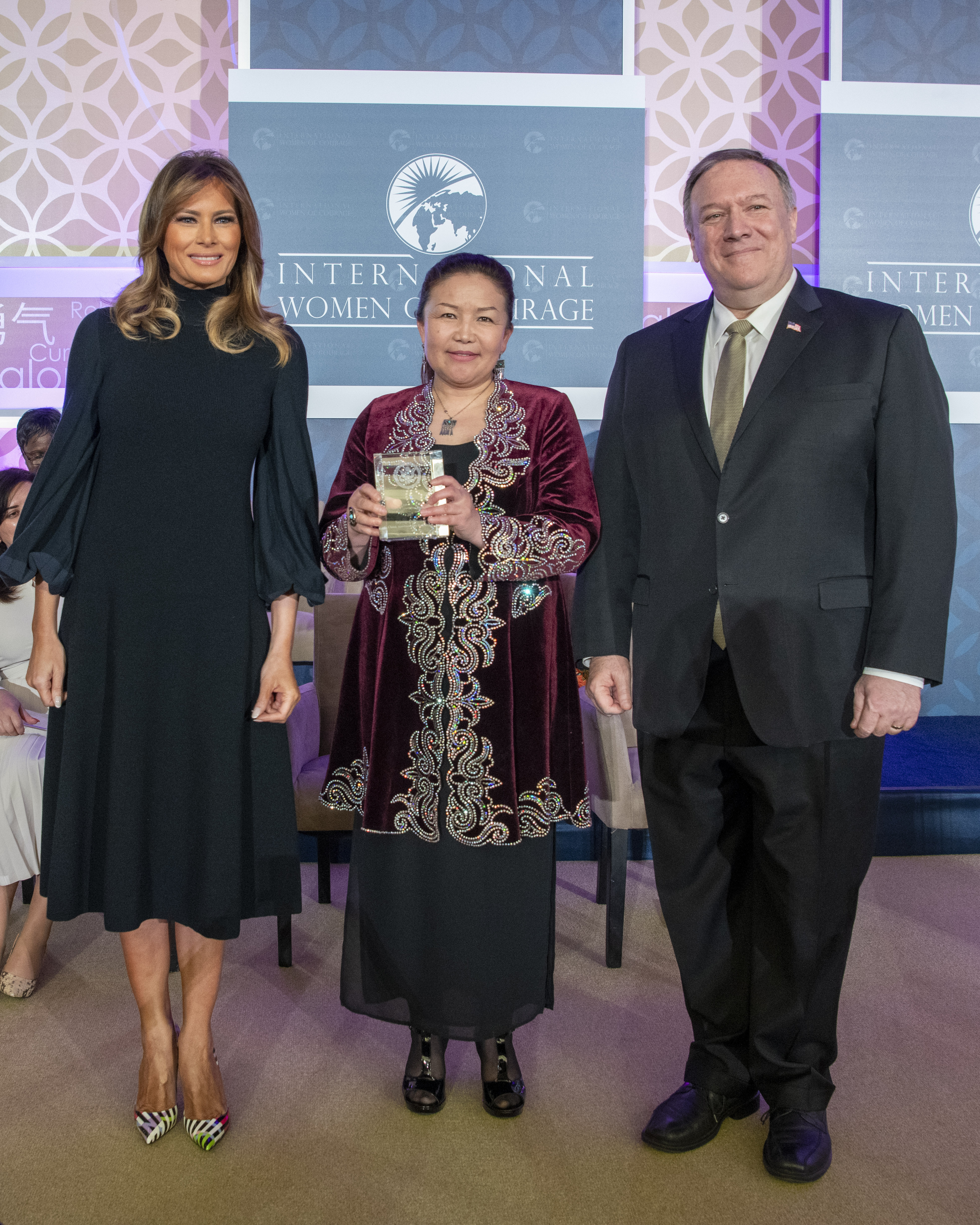 Secretary of State Michael R. Pompeo, First Lady of the United States Melania Trump, and awardee Sayragul Sauytbay, an ethnic Kazakh from Xinjiang, pose for a photo, at the Department of State on March 4, 2020. [State Department photo by Freddie Everett/ Public Domain]